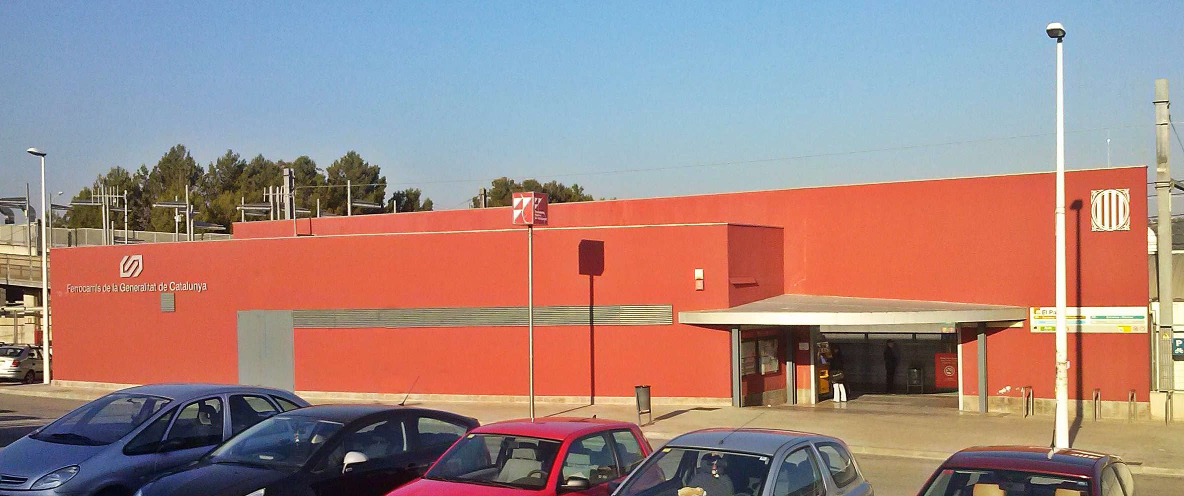 estació del palau